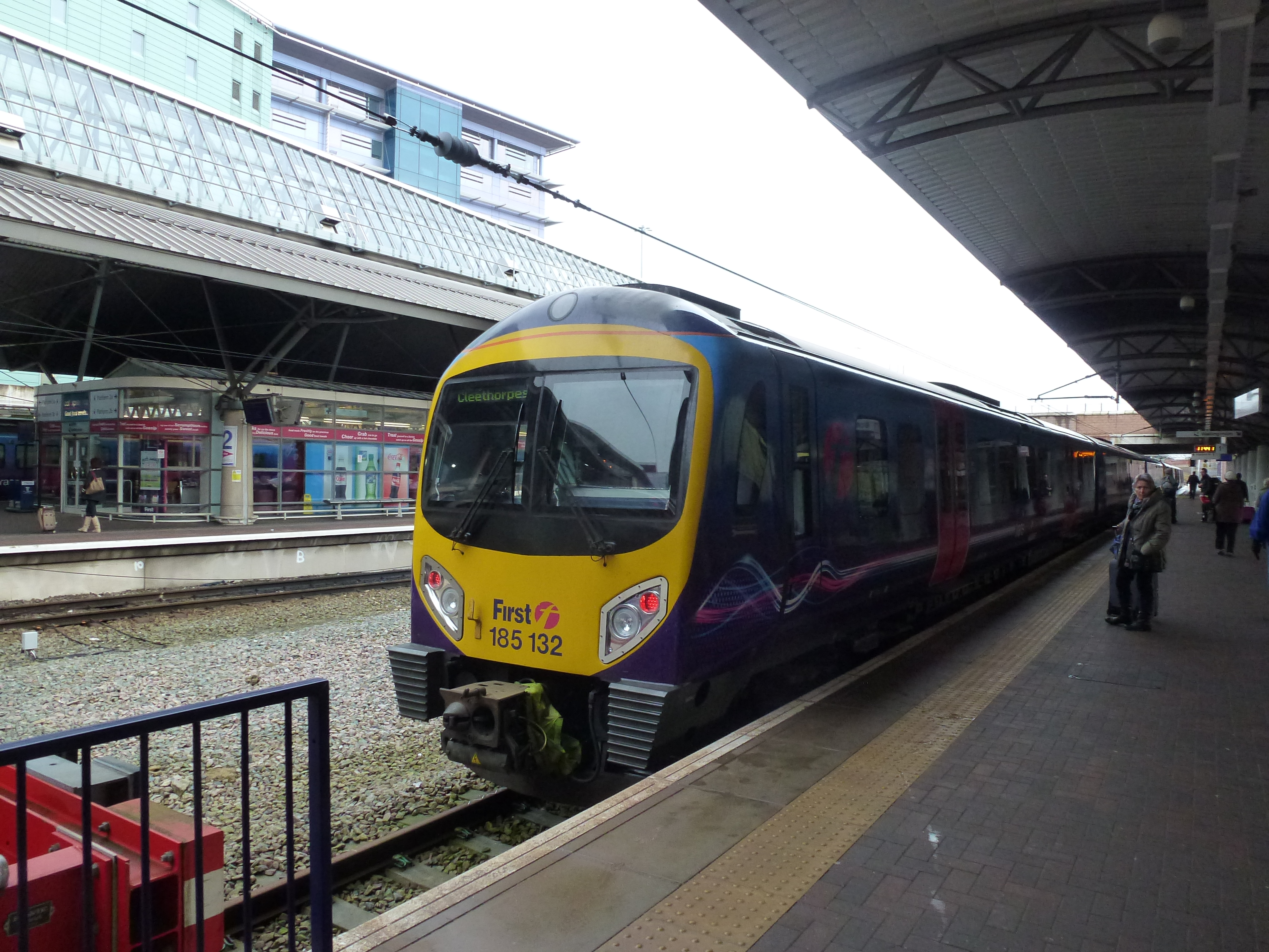 Manchester Airport station